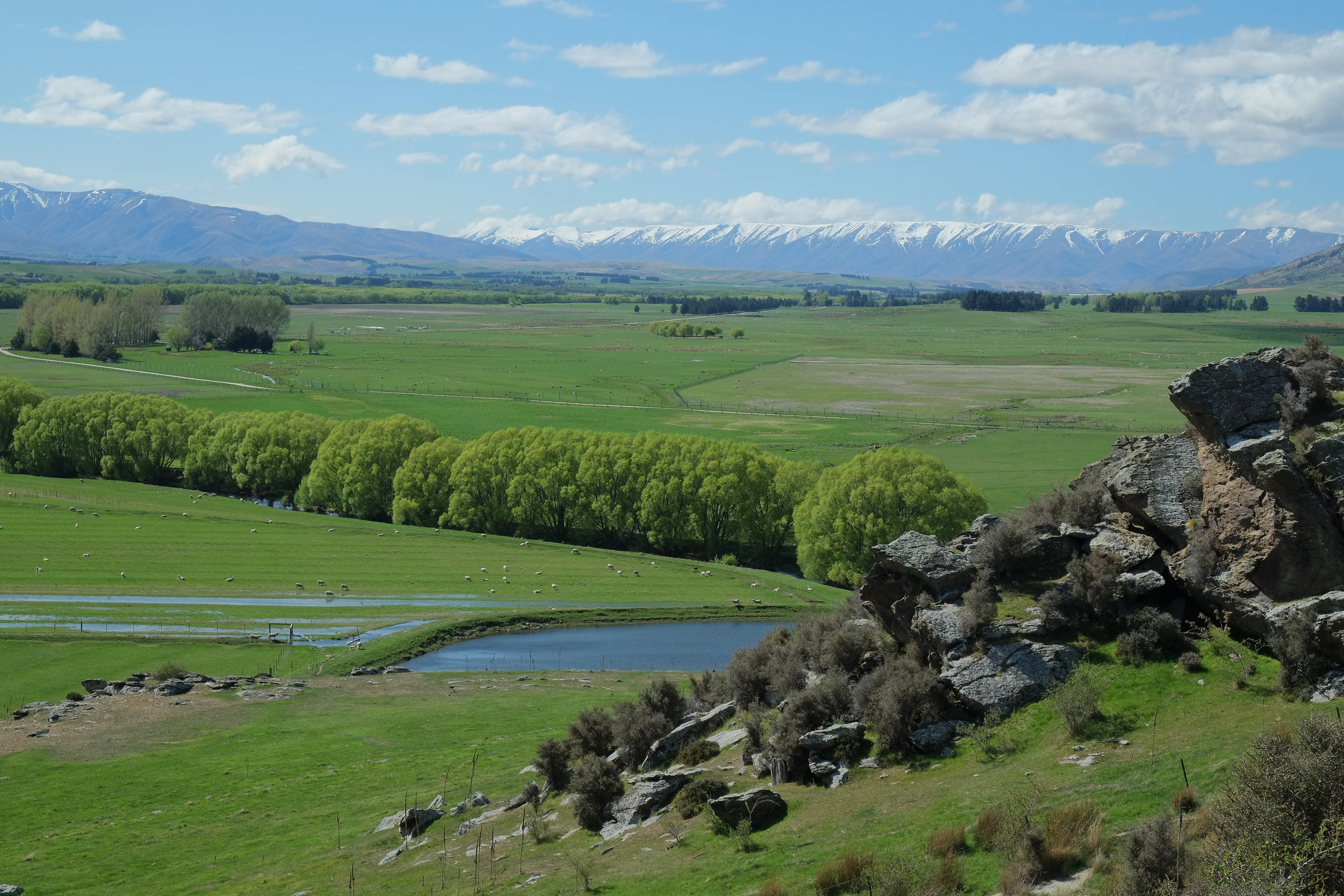 View over Manuherikia Valley towards Hawkdun Range from Otago Central Rail Trail